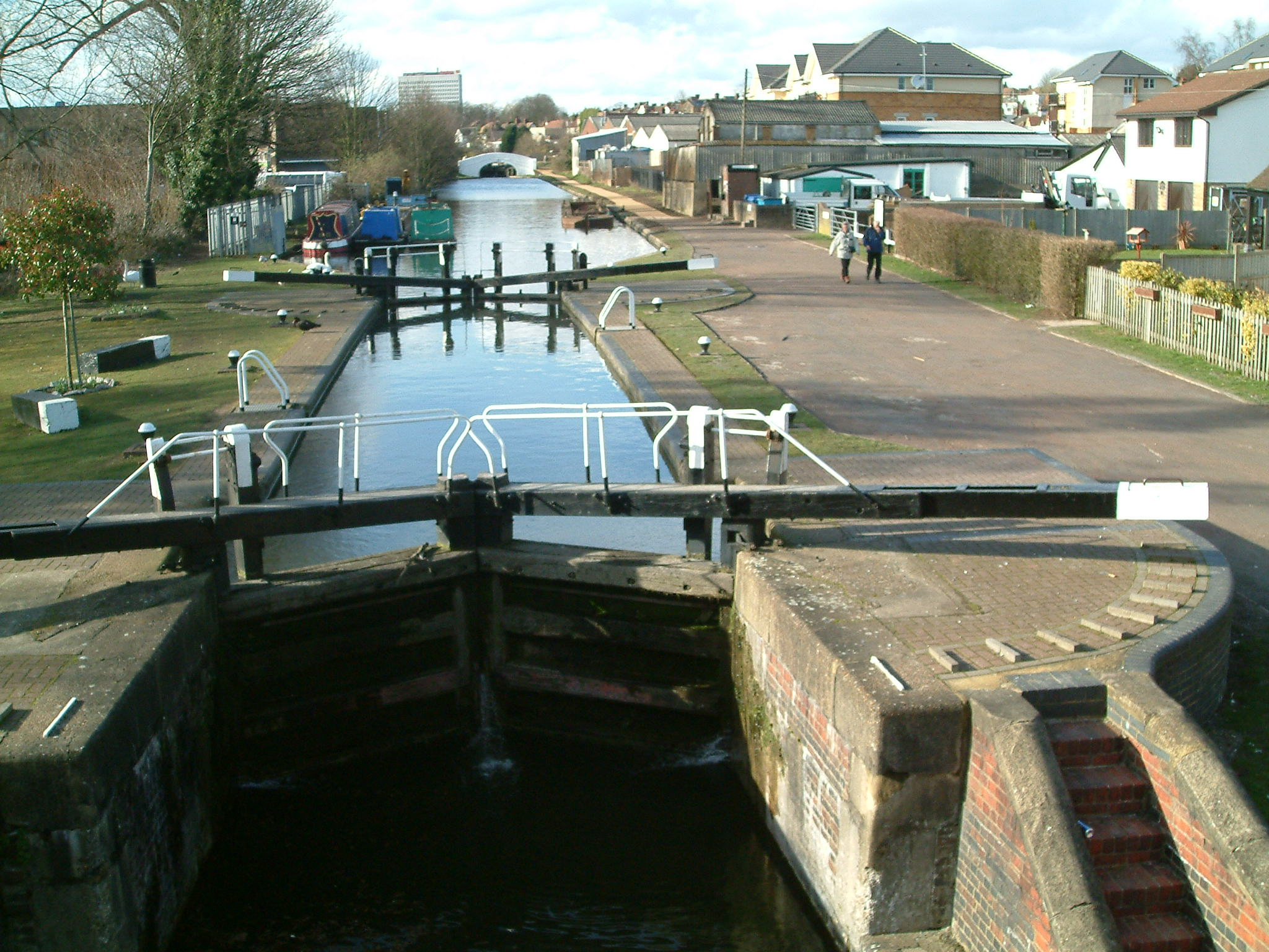 Grand Union Canal Aplsey lock